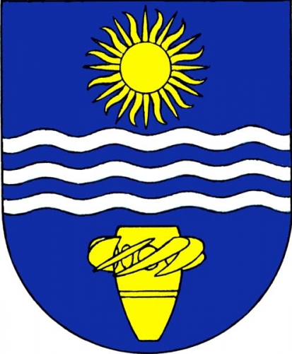 Coat of arms of Solenice (city in Czechia)